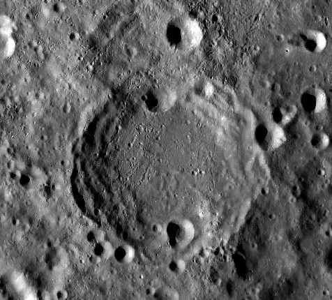 McMath lunar crater - LRO-WAC; secondaries chains from nearby Jackson